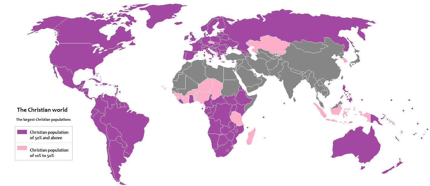 Map of The Christian World, with the largest Christian populations. Purple = Christian majority. Pink = At least 10% Christian in population.